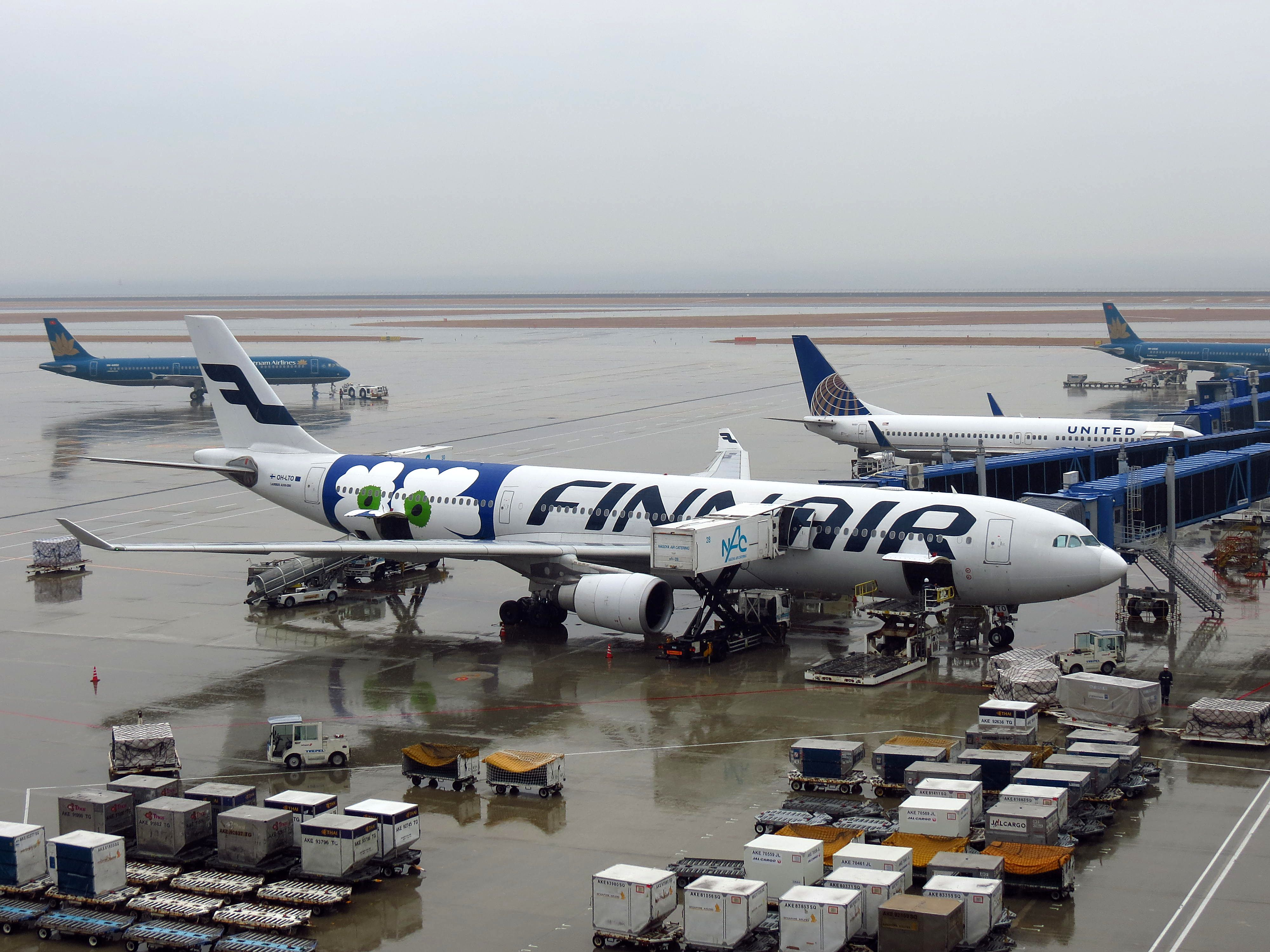 Finnair Airbus A330-300 Chūbu Centrair International Airport